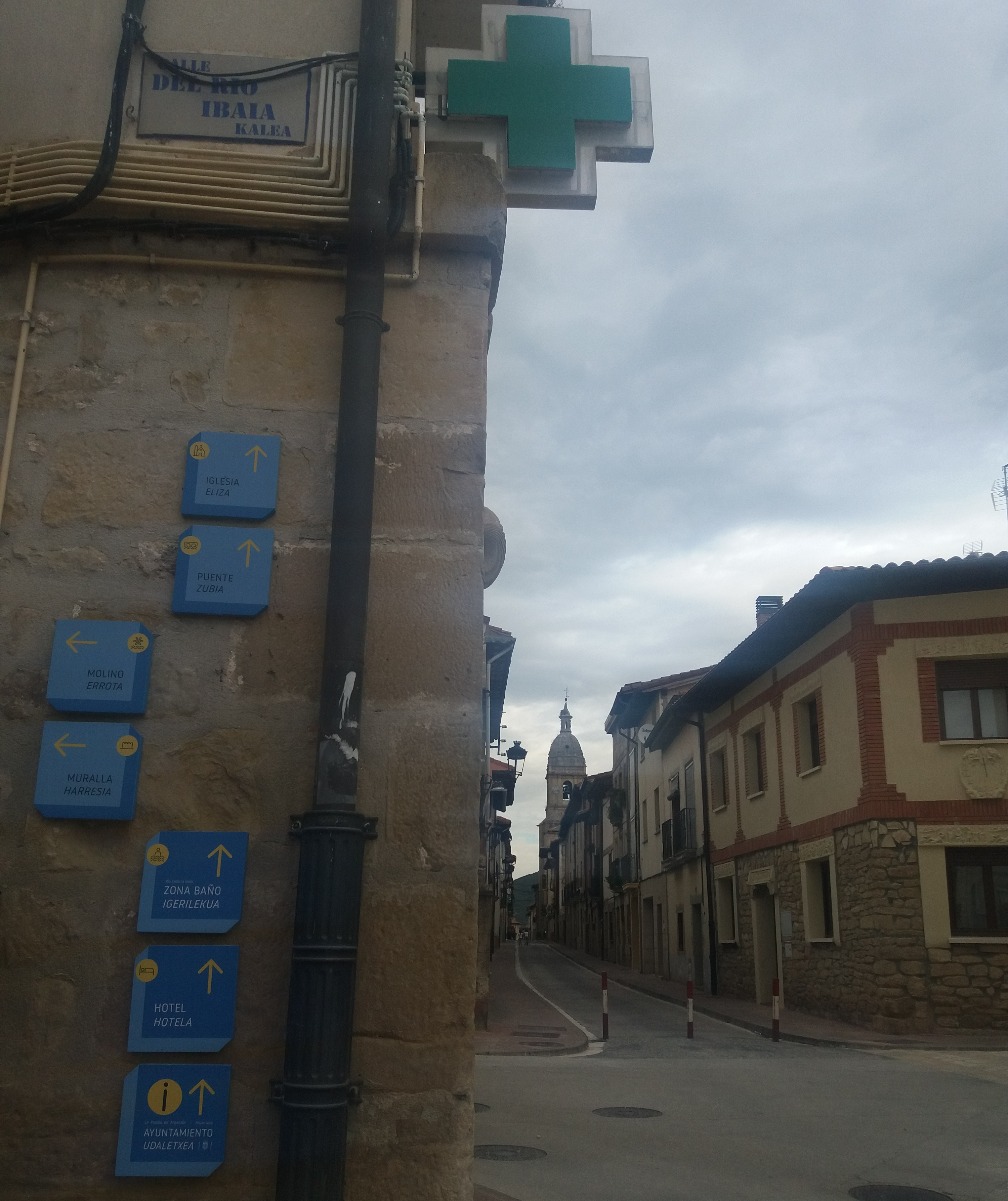 Bilingüal signs in La Puebla de Armazón, Spain